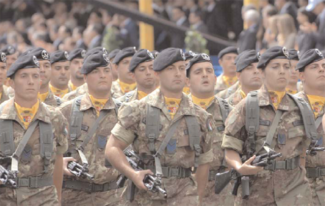 Soldiers of the 33rd Field Artillery Regiment "Acqui" - Italian Army. Downloaded from the official homepage of the Italian Army.